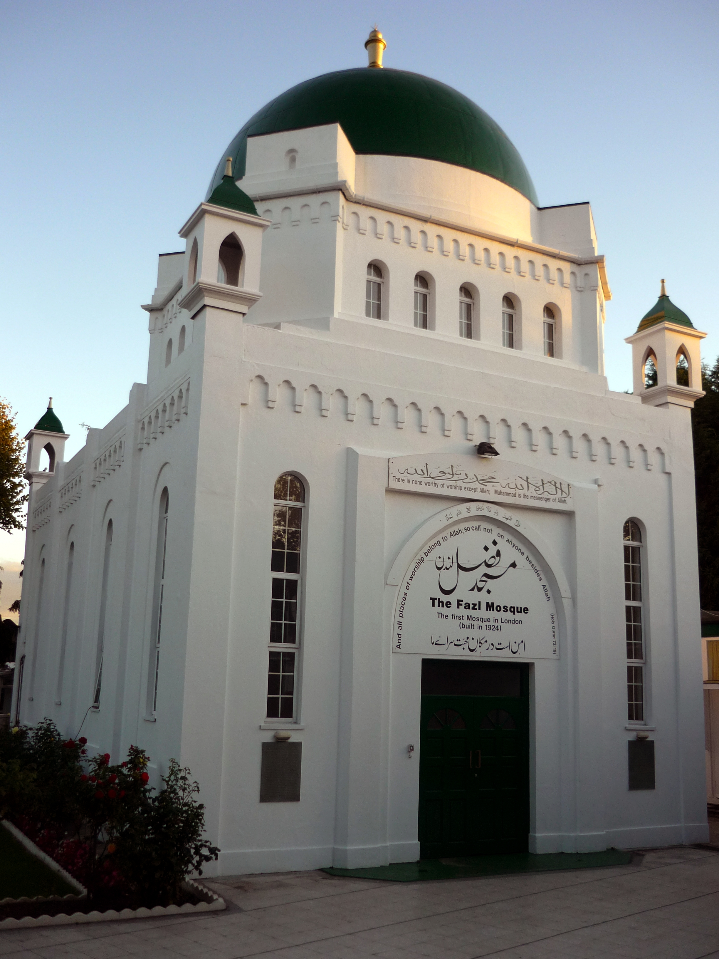 The Fazl-Mosque in London, also called "The London Mosque", was the first mosque in London